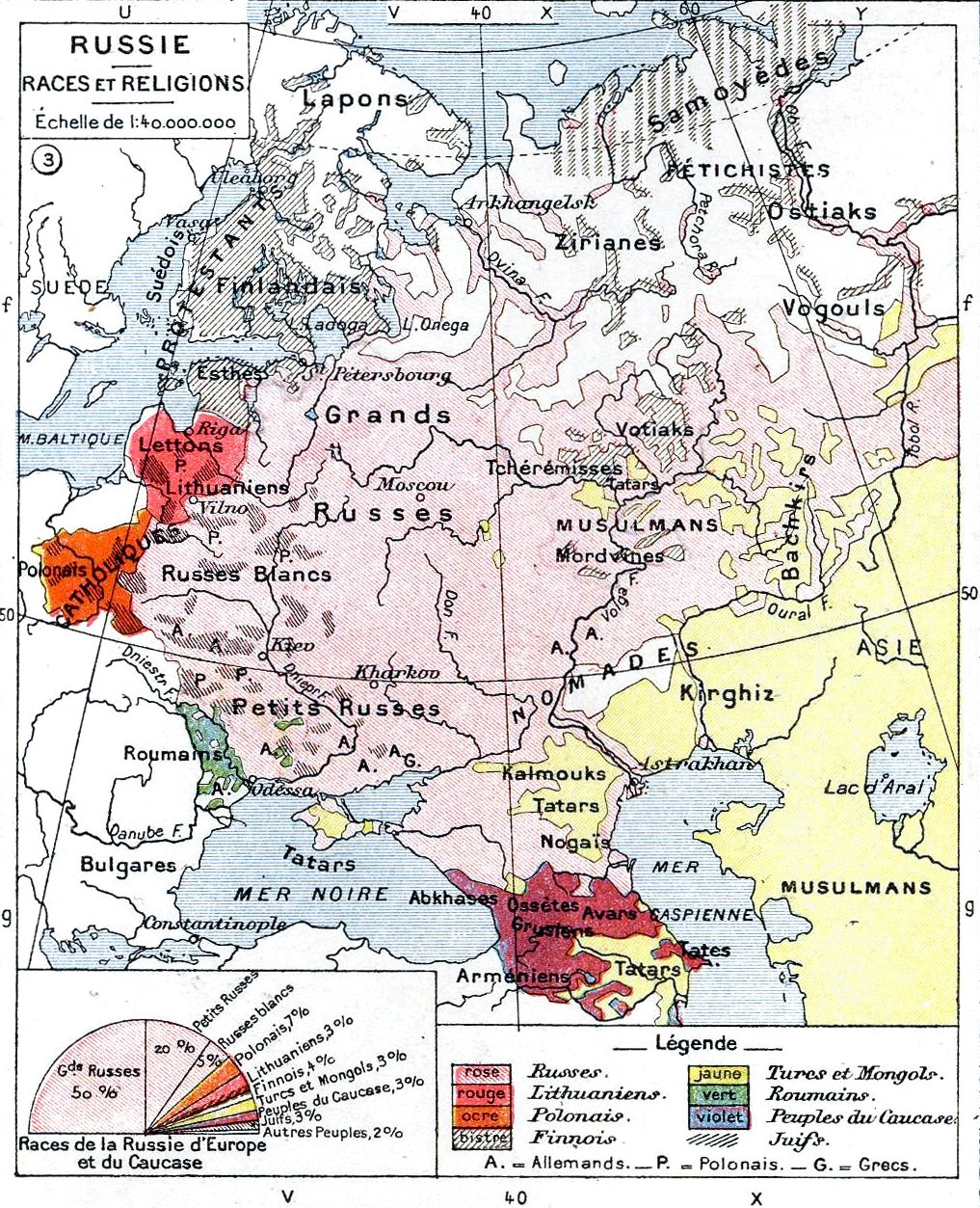 Ethnic map of the European part of the Russian Empire